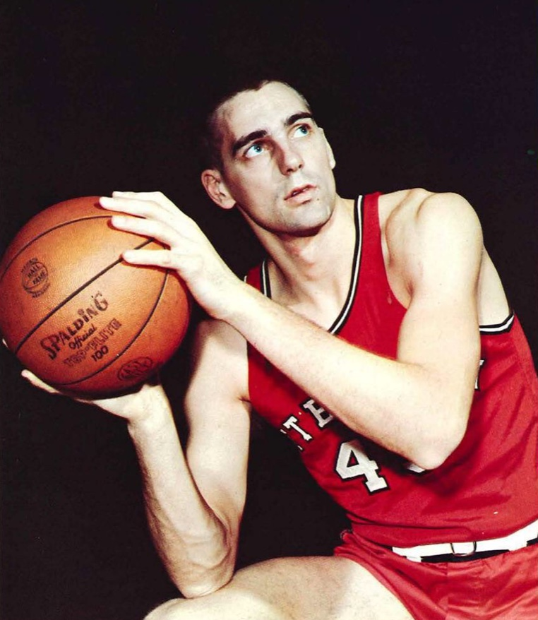 Otterbein University basketball player Don Carlos in 1967